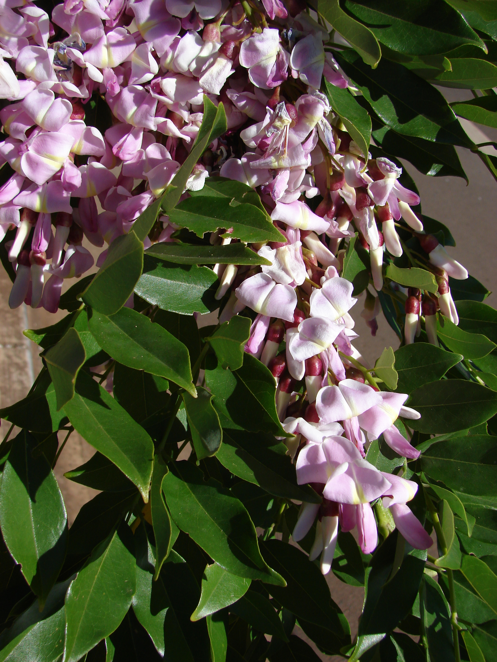 Gliricidia sepium (flowers and leaves). Location: Maui, Spreckelsville